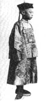 Henry Pu Yi as emperor From [1]; Henry Pu Yi, February 12, 1908. ja:??:HenryPuYi.jpeg